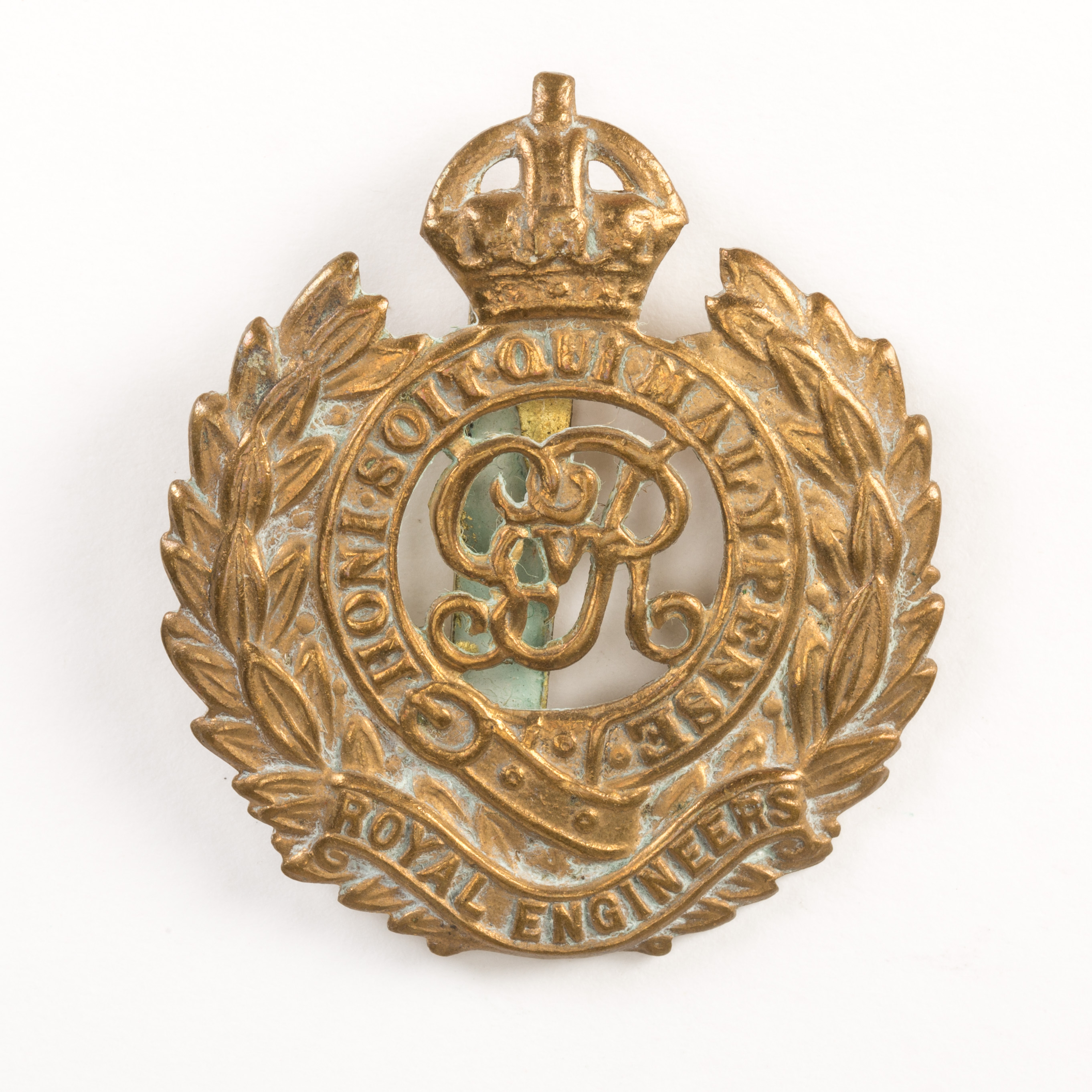 Badge, regimental. Royal Engineers cap badge The Corps of Royal Engineers, usually just called the Royal Engineers (RE), and commonly known as the Sappers, is one of the corps of the British Army. It is highly regarded throughout the military, and especially the Army.